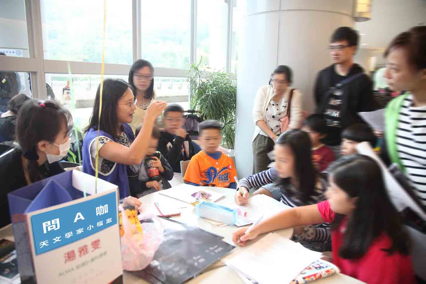 ASIAA informs the public through "Ask an Astronomer" at its Open House